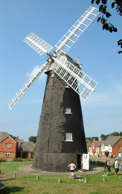 Shirley Windmill in Post Mill Close, off Upper Shirley Road, Croydon, Greater London. Croydon's only windmill. Built in the mid 1850's to replace an earlier post mill which was destroyed by fire in 1854, it worked until 1892 when it was abandoned. The mill is opened on the first Sunday of each month from June until October, between 13:00 and 17:00.